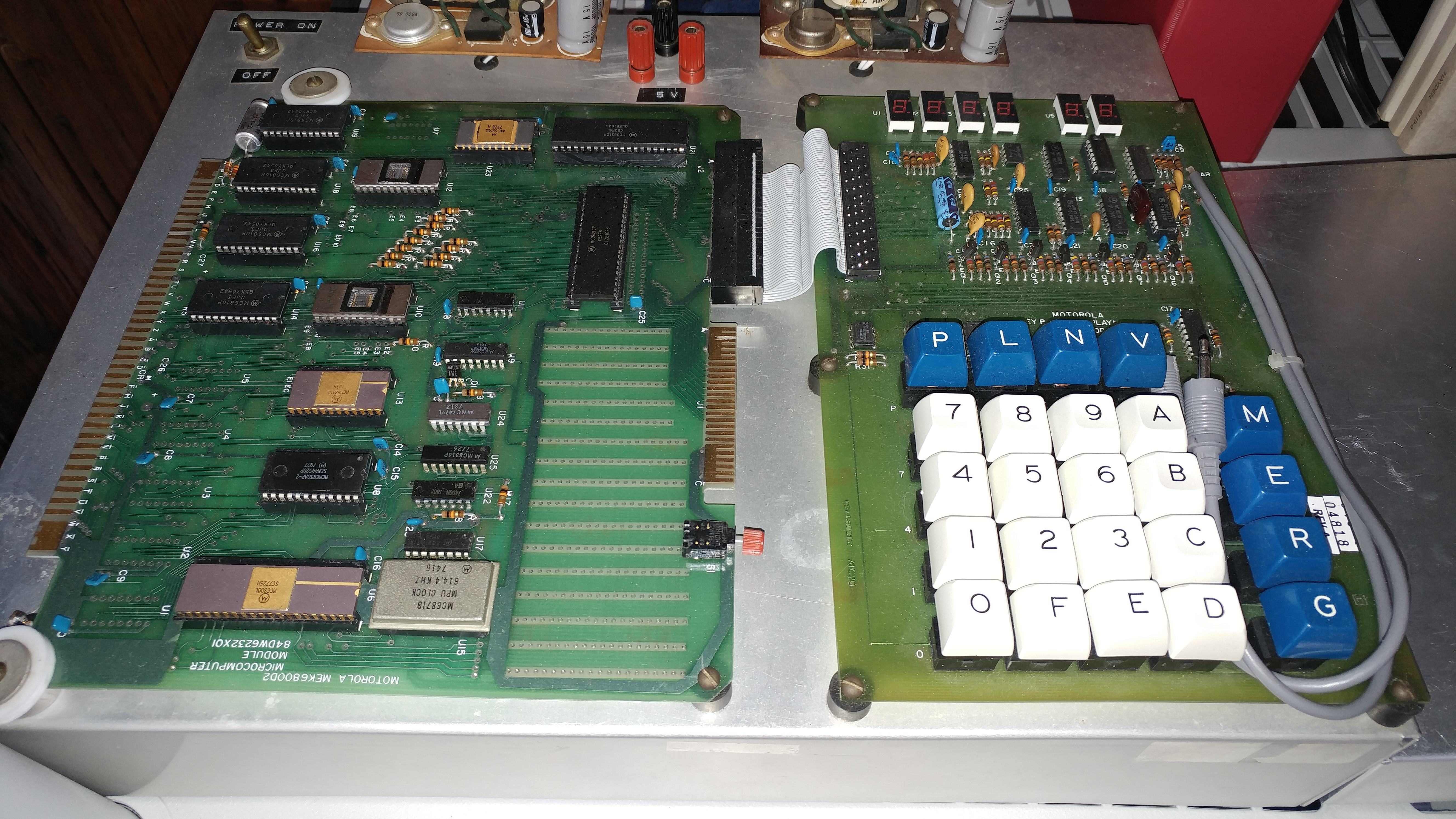 A Motorola MEK6800D2 Microcomputer, in the collection of the Microcomputer Museum of America. To the left is the main Microcomputer Module containing the MC6800 Microprocessor, RAM and ROM memory (JBUG Monitor program), Clock Module, I/O chips, and assorted glue logic ICs. On the right is the Keyboard/Display Module containing a hexadecimal keypad, control keys, and 7-segment LEDs for display of 16-bit address and 8-bit data. A circuit and connectors for connection to an audio cassette tape player/recorder can also be seen on the Keyboard/Display Module, which is used to save/load data and programs to/from memory.